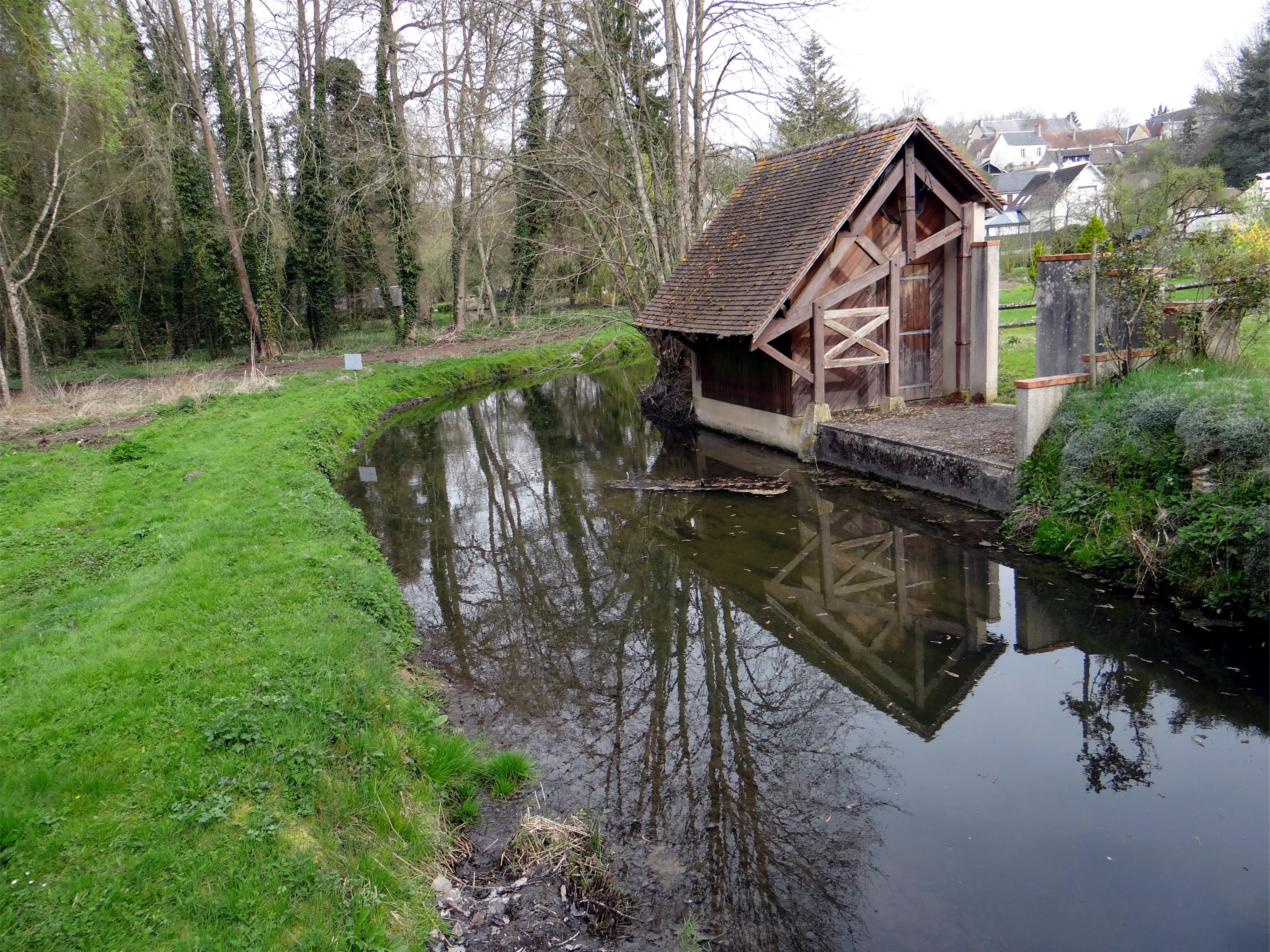 Laundry room on the edge of the Voise, Levainville, Eure-et-Loir, France.